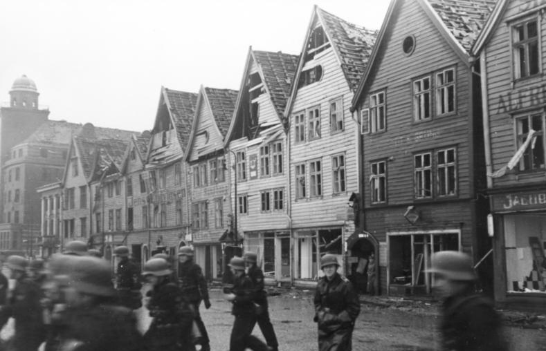 Bryggen in Bergen after the Explosion in Bergen 1944. Original text on image: Bundesarchiv, Bild 1011-117-0353-30 Foto: Maltry